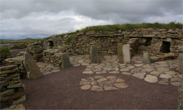 Aisled roundhouse at the archeological site of Old Scatness, Shetland, Scotland.